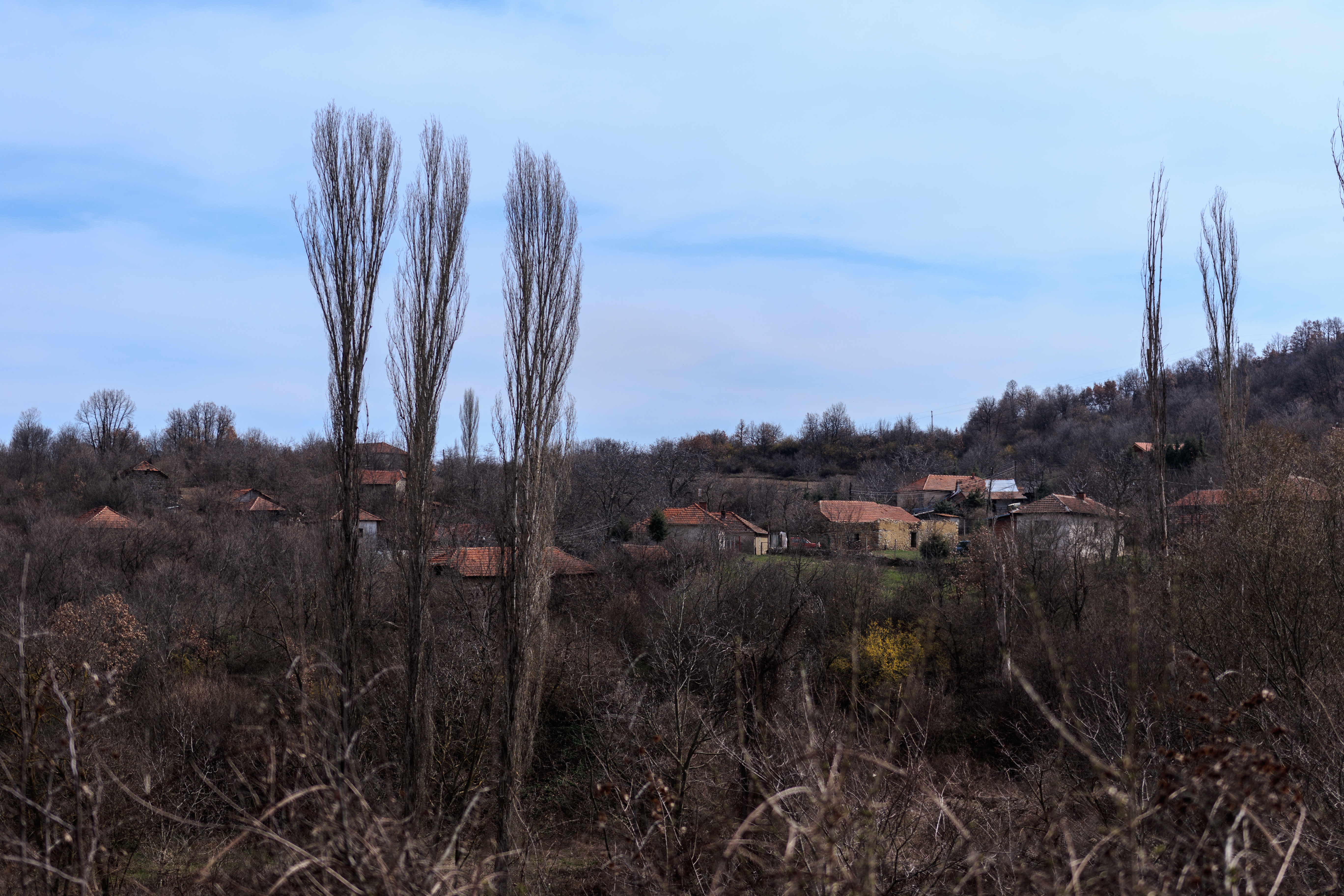 Поглед на селото Никуљане